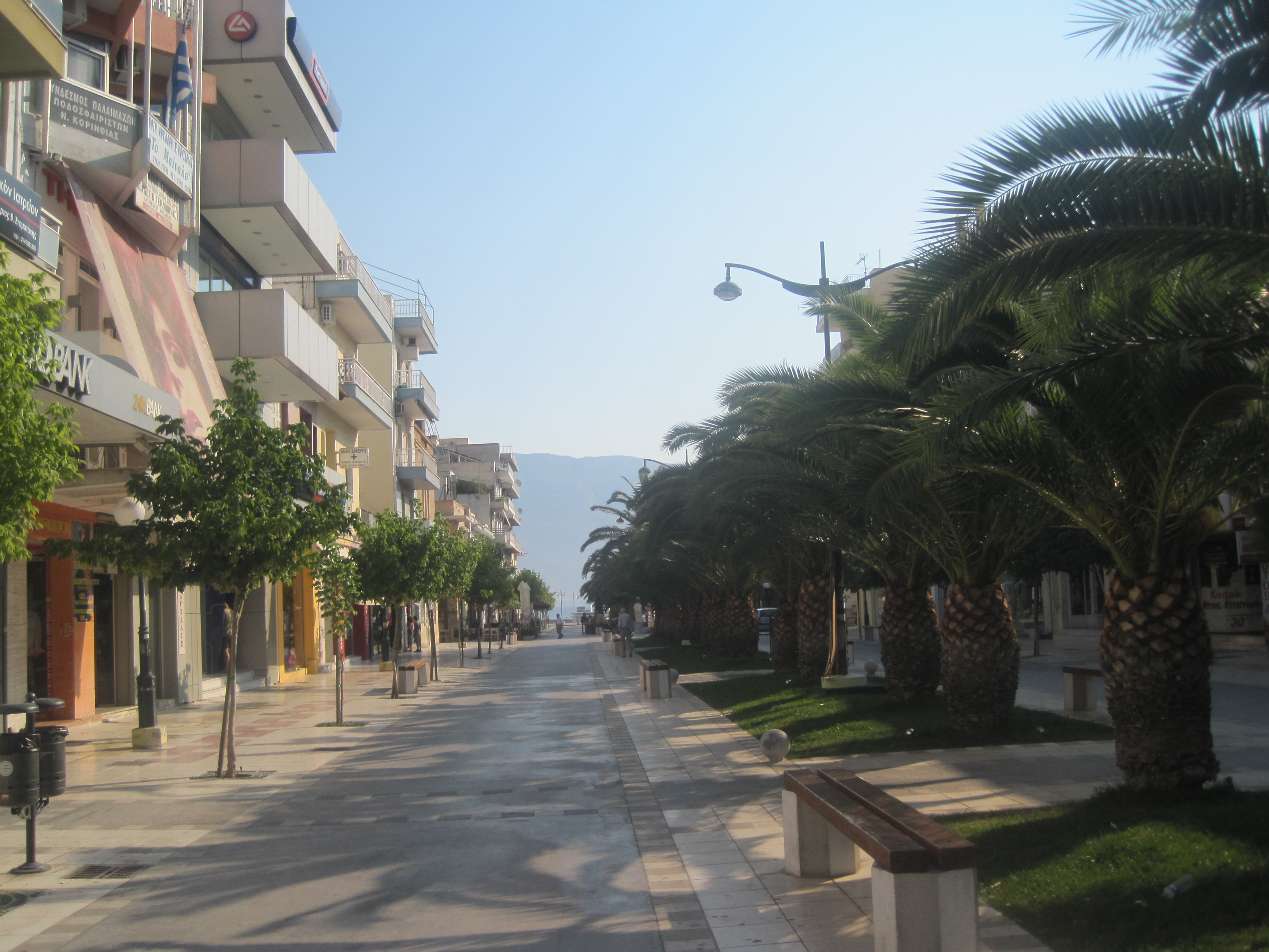 Corinth